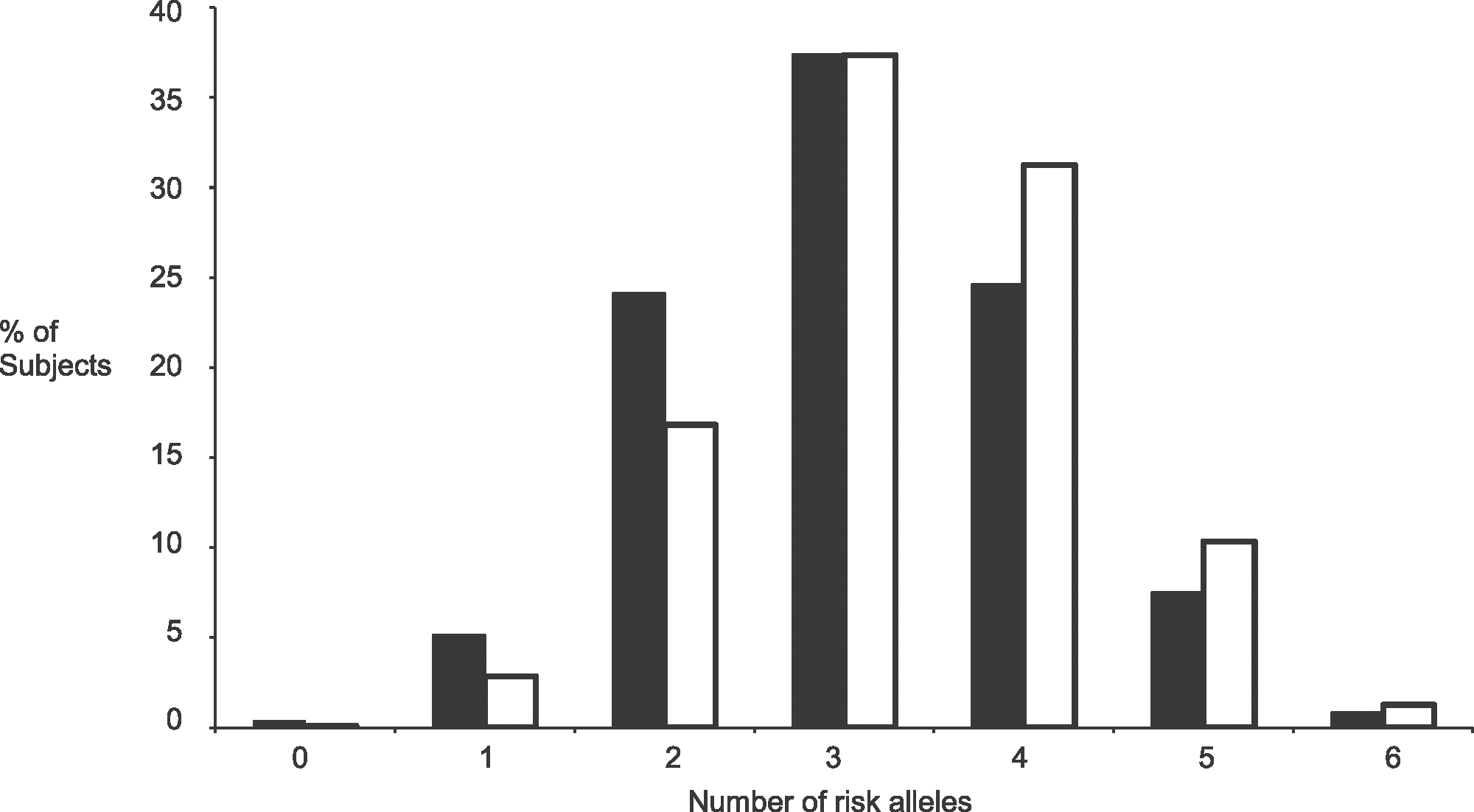 Controls are indicated by black bars, cases by white bars.